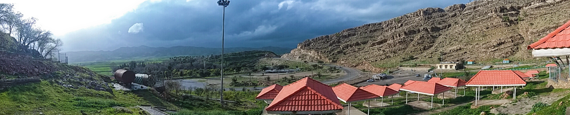 chesheme belgheis, choram county